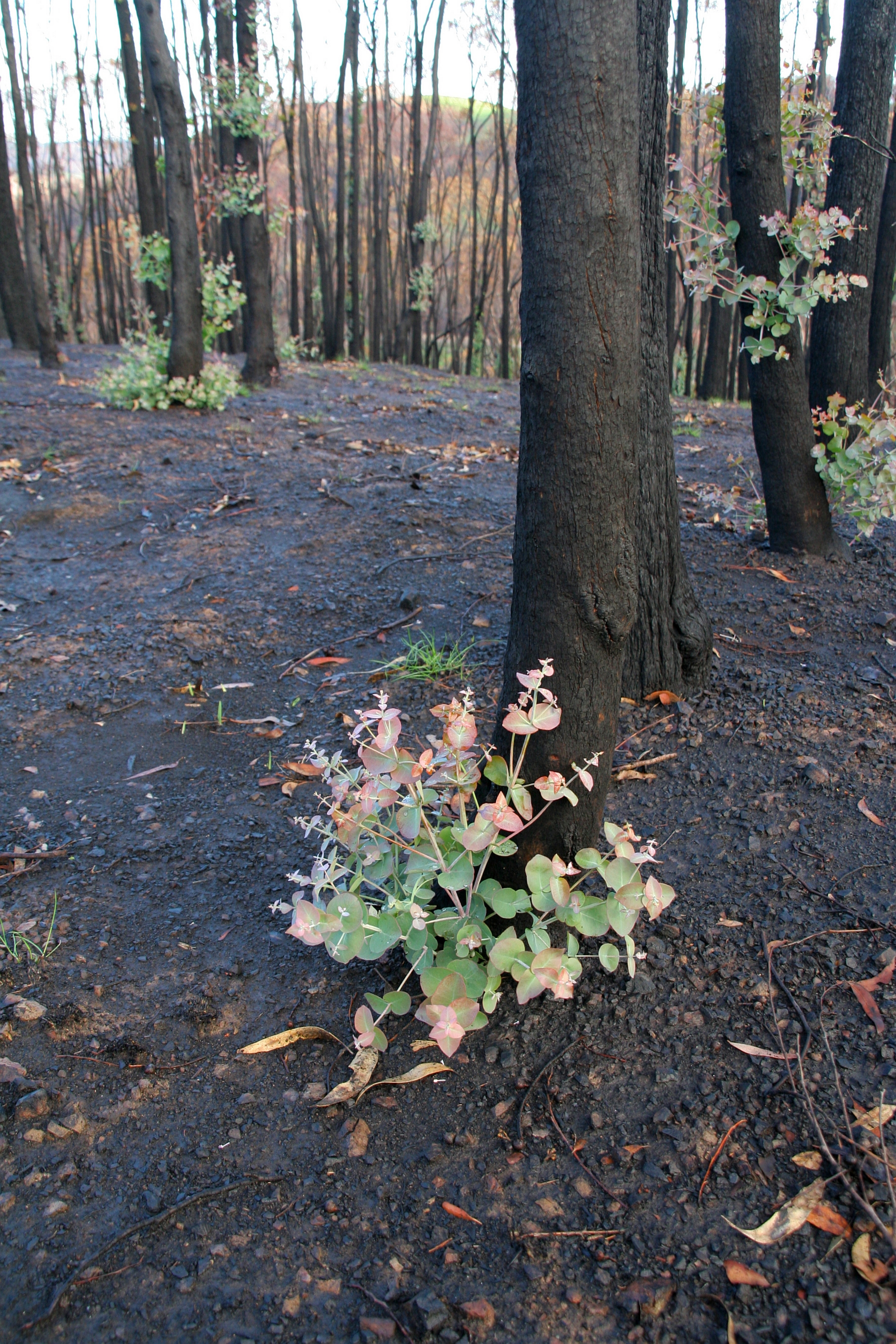 Epicormic regrowth from base of Eucalypt tree, four months after Black Saturday bushfires, Strathewen, Victoria.